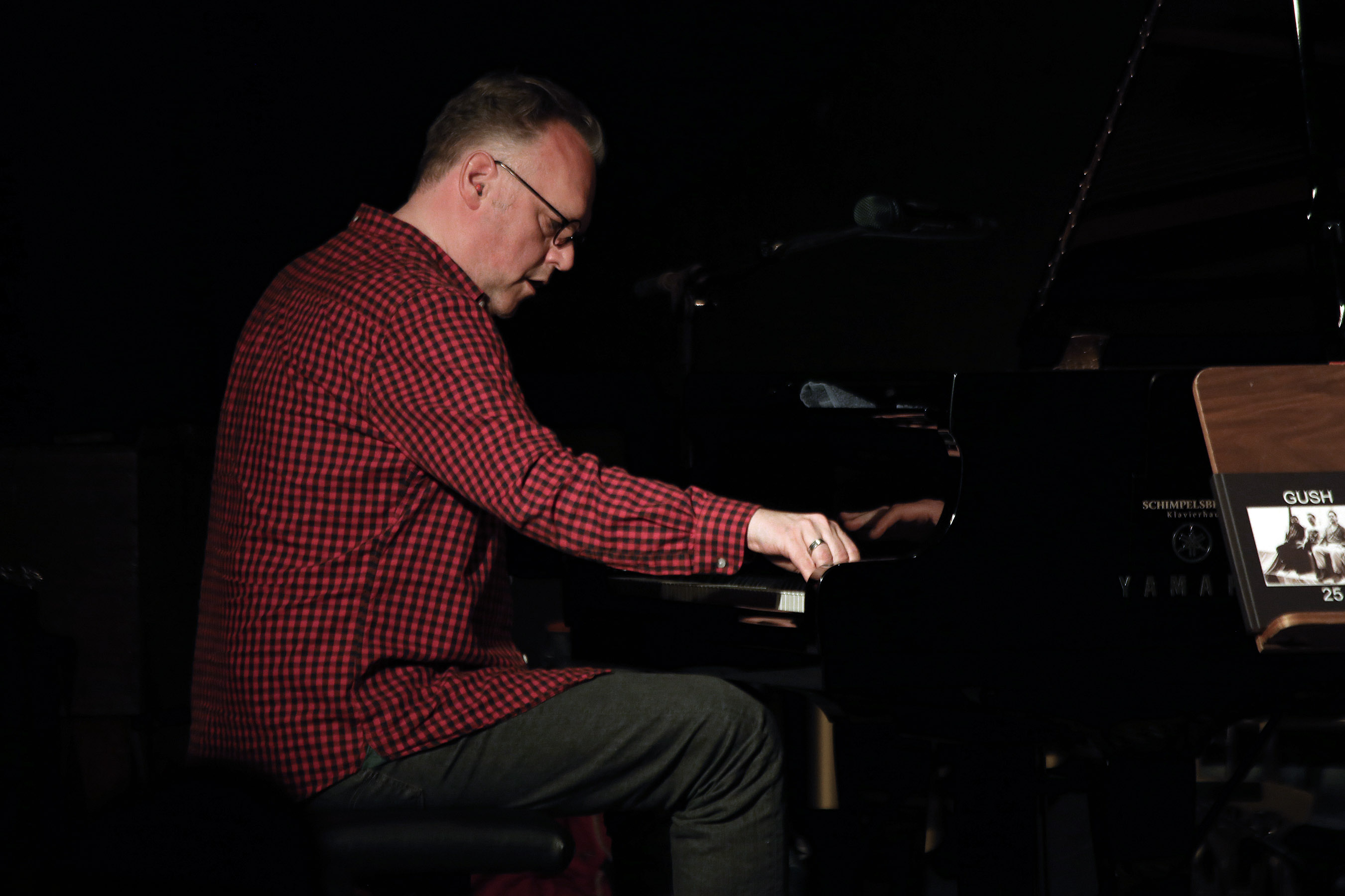 GUSH - Mats Gustafsson, Sten Sandell, Raymond Strid - Ulrichsberger Kaleidophon (Ulrichsberg, Upper Austria)